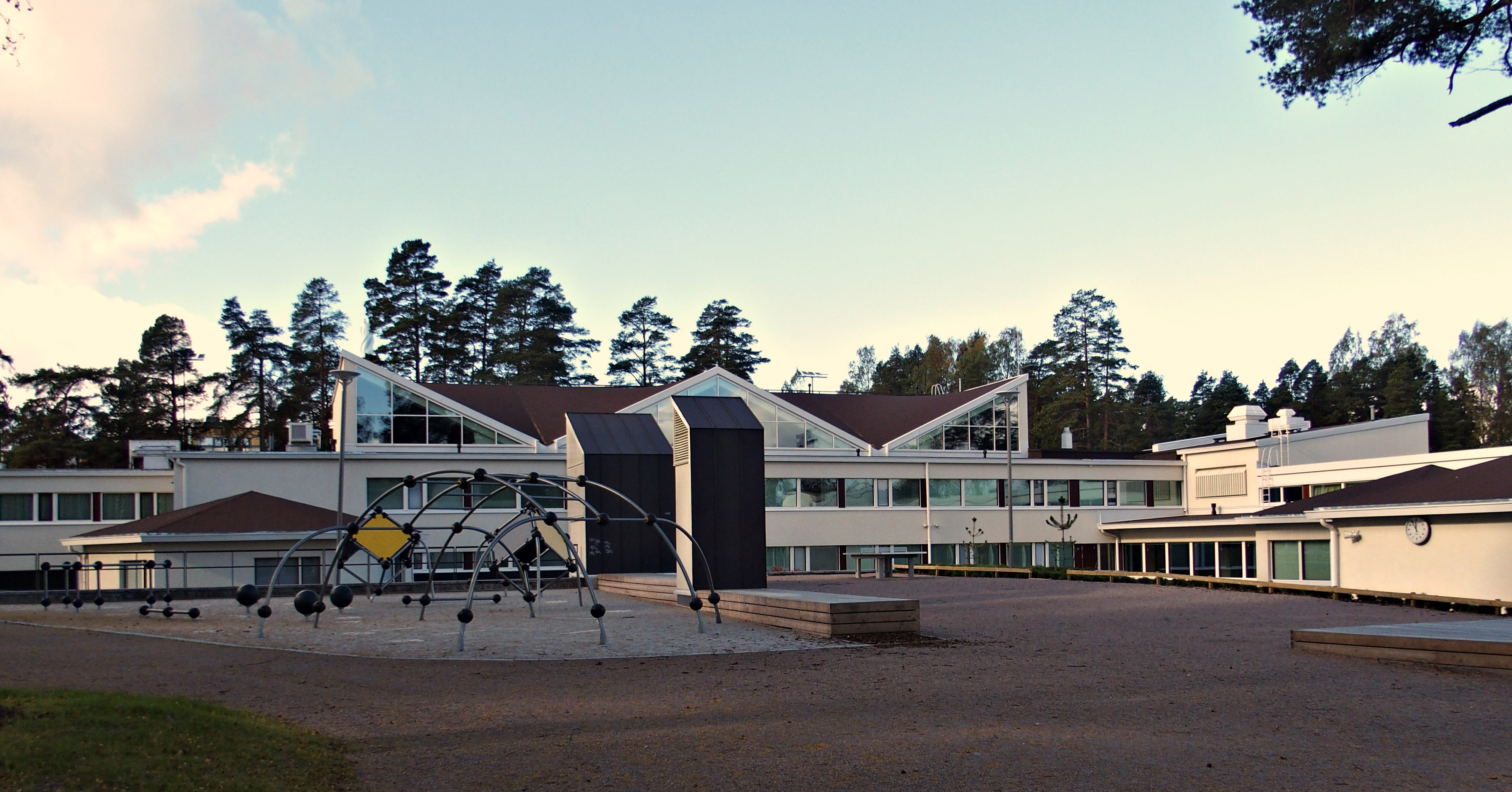 The central schoolyard of Tapiolan koulu ja lukio, Espoo, Finland. Pictured after the renovation in Oct 2016 from southeast. Original architect Jorma Järvi, 1958.